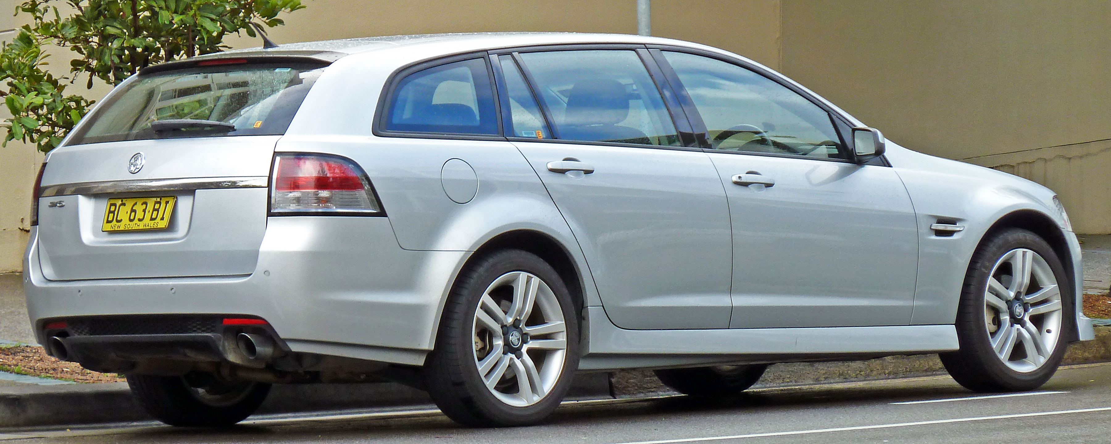 2008–2009 Holden Commodore (VE) SV6 Sportwagon. Photographed in Cronulla, New South Wales, Australia.